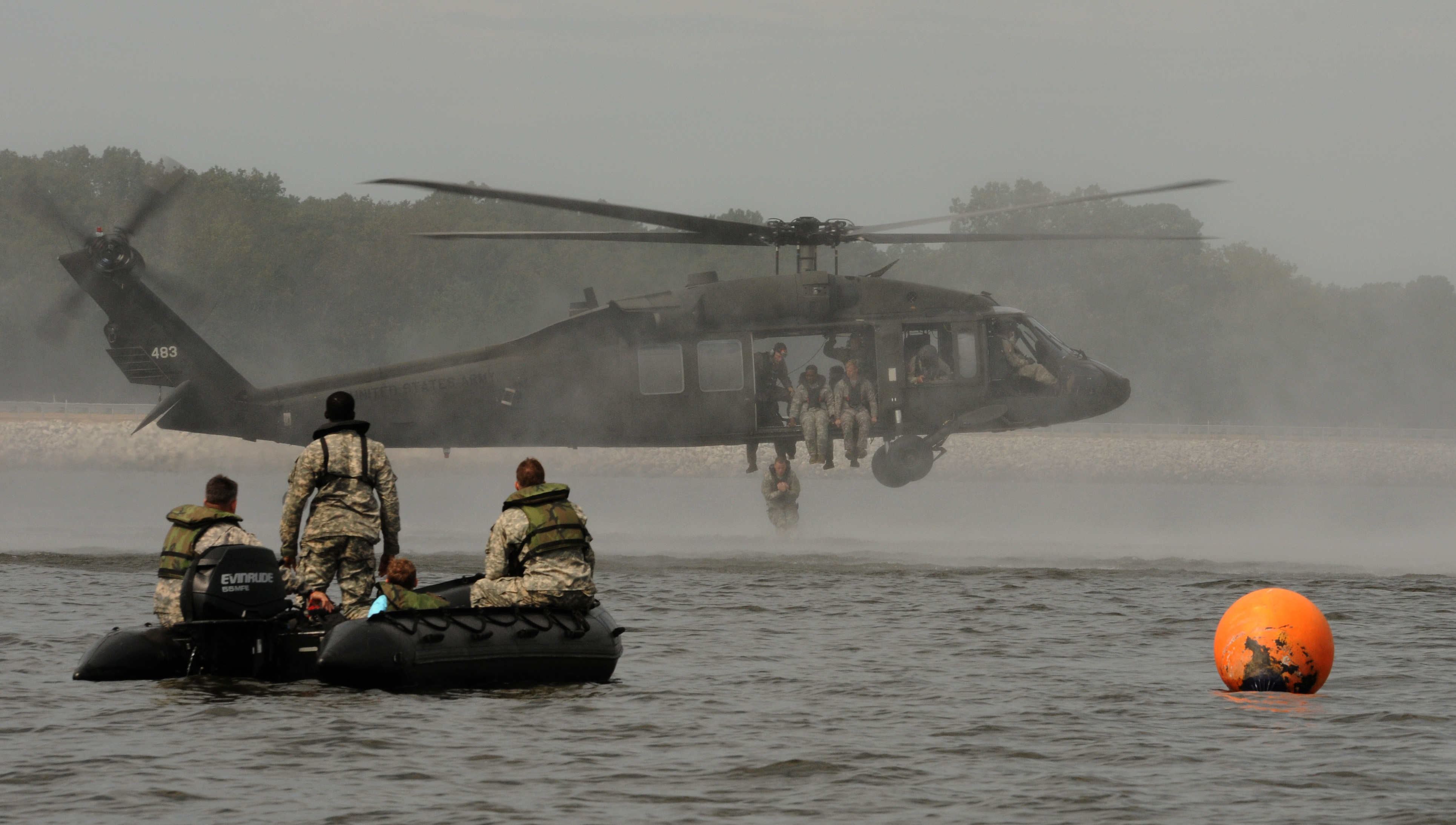 Mississippi Army National Guard soldiers with 2nd Battalion, 20th Special Forces Group (Airborne) conduct water insertions into the Ross Barnett reservoir as part of their readiness training for state emergencies and missions overseas, Sept. 13. The Mississippi National Guard trains continuously to increase its capabilities in the execution of emergency response operations.